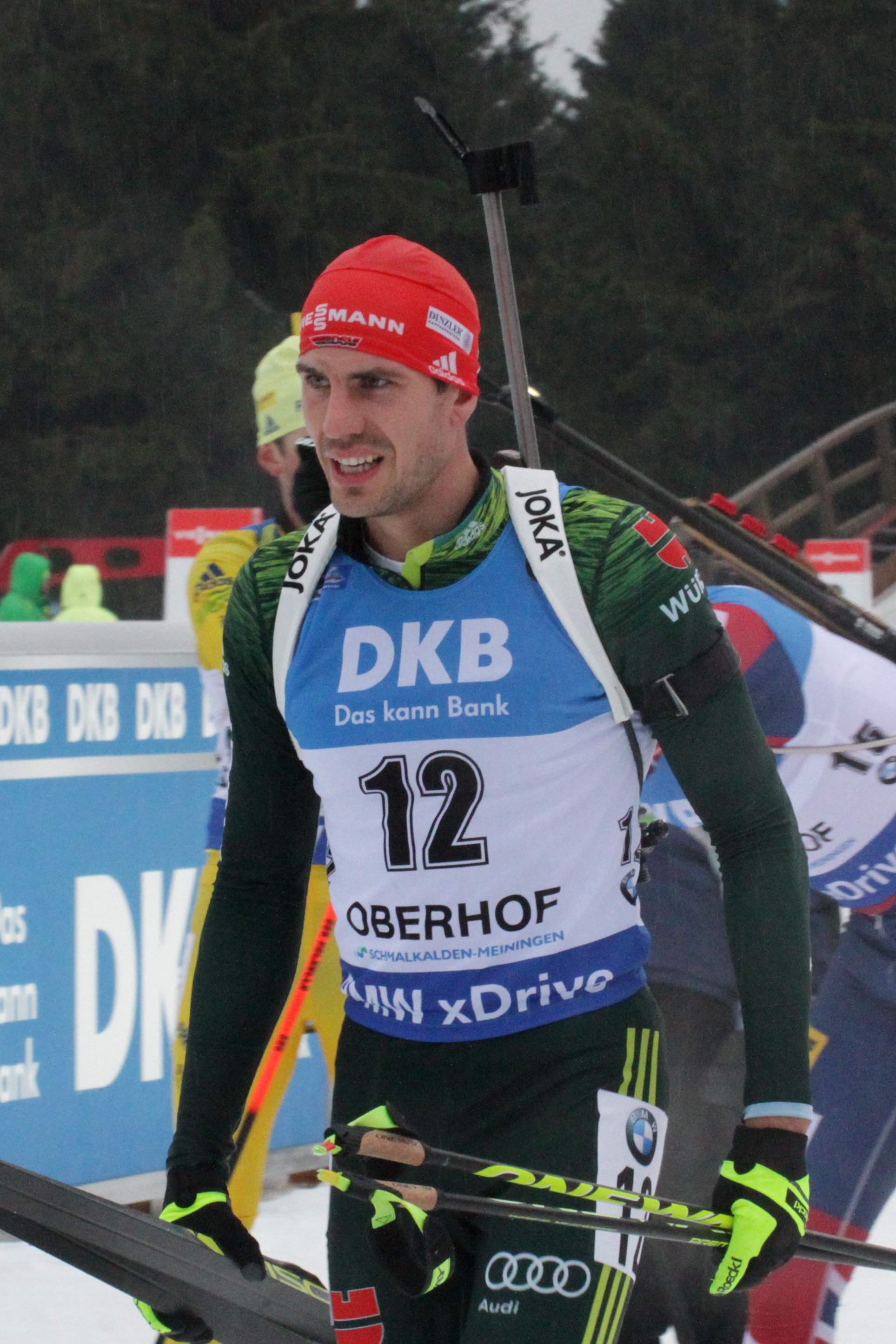 2018 Oberhof Biathlon World Cup - Pursuit Men